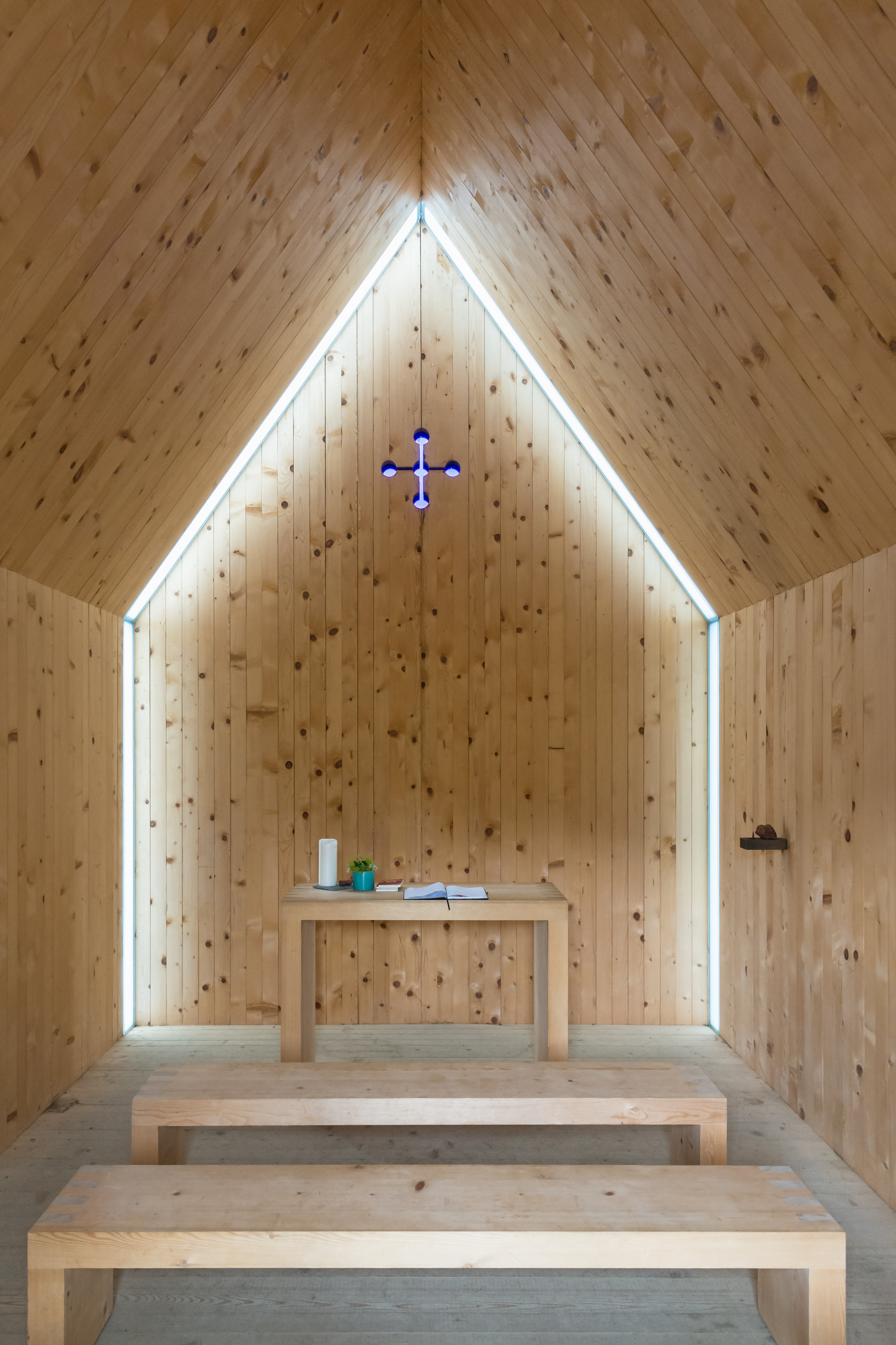 Chapel of Saint Theodul at the Alpe Vordere Niedere, municipality of Andelsbuch in the Bregenz Forest, Vorarlberg, Austria